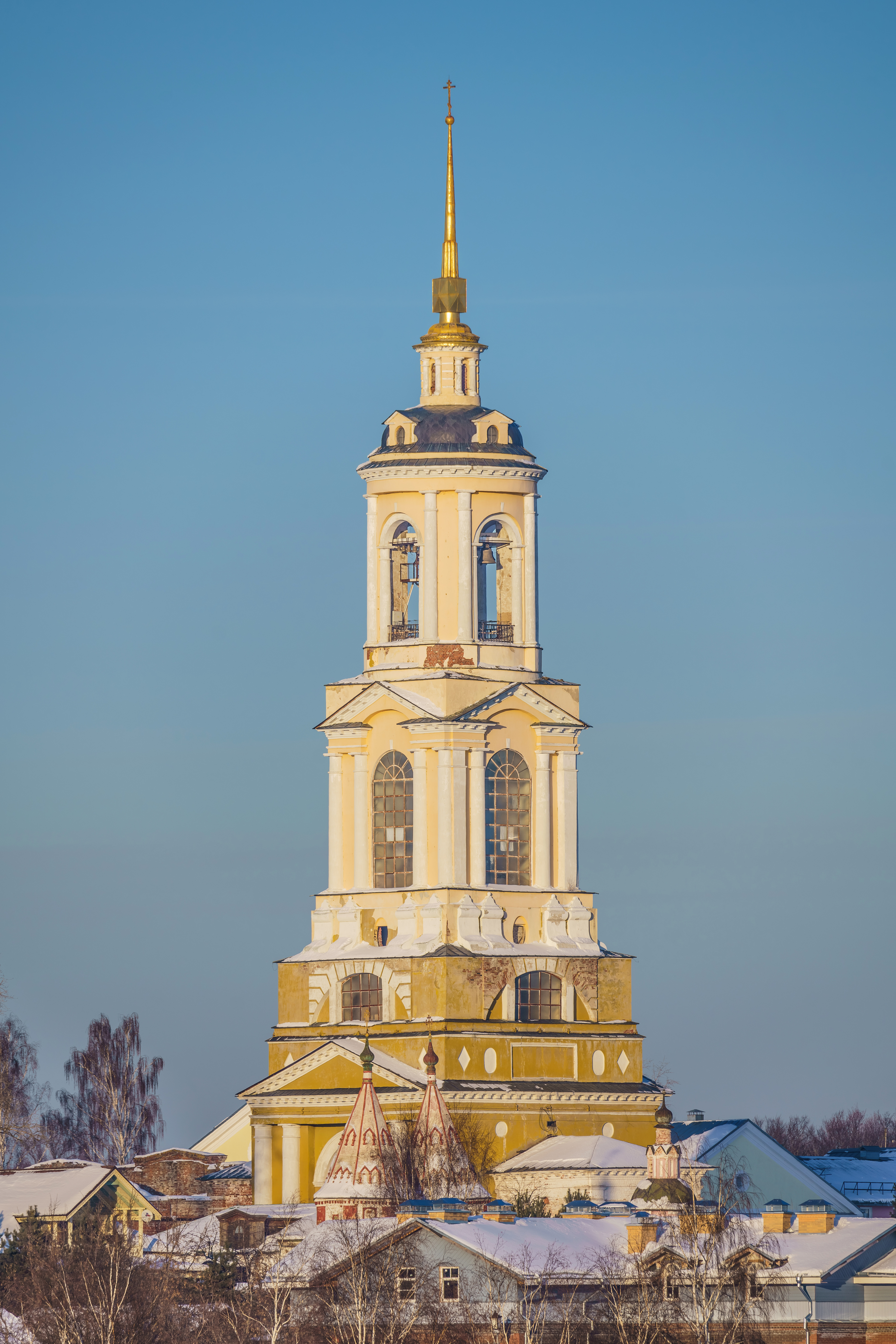 View of the bell tower of Rizopolozhensky Monastery from the Kremlin in Suzdal, Russia